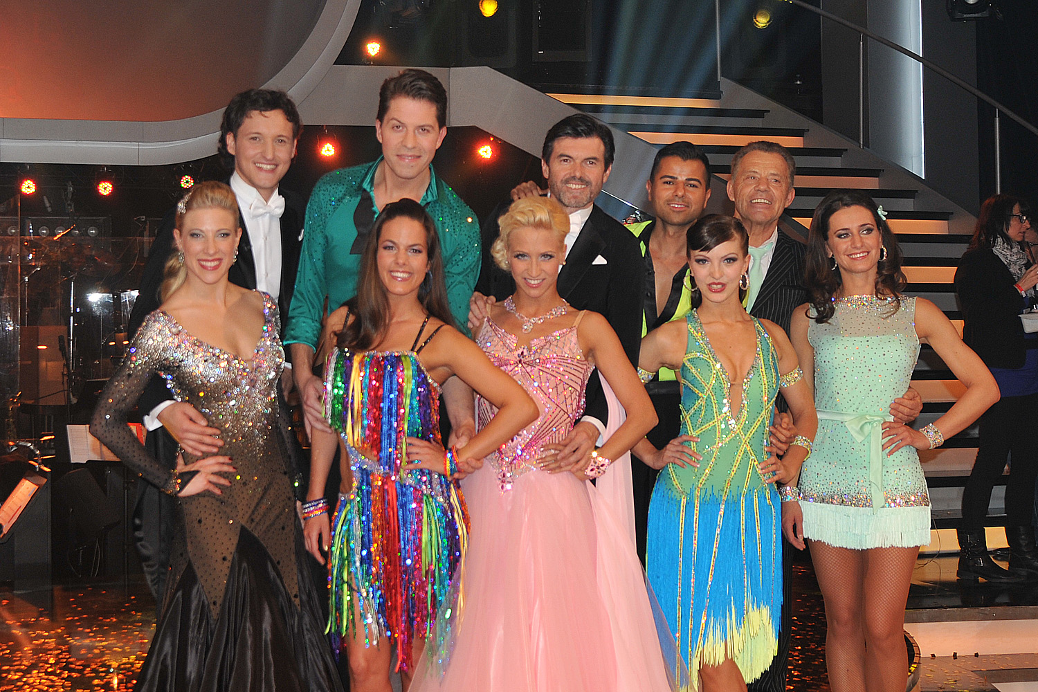 ORF Dancing Stars 2014: Herren